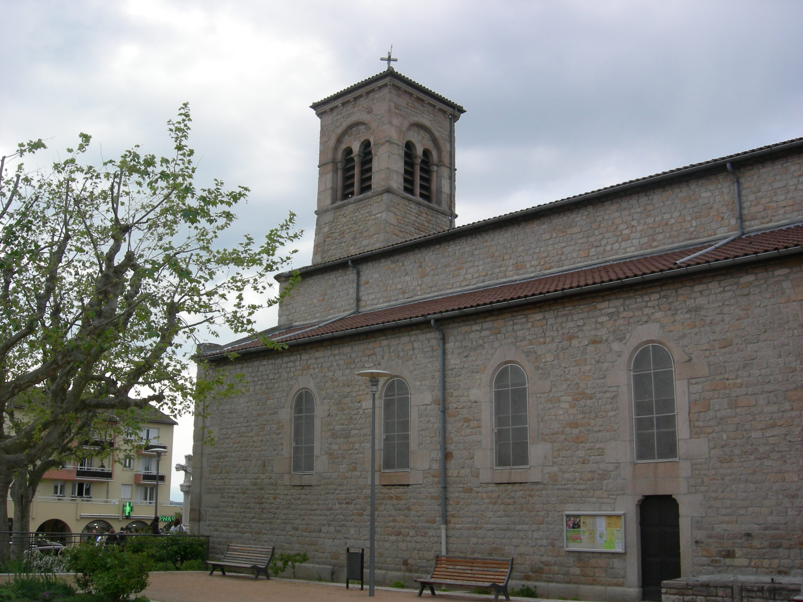 saint priest church